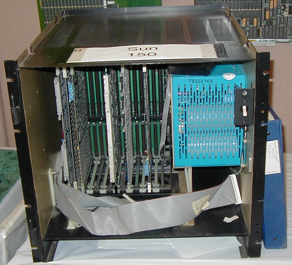 Sun 150U Rackmount Server Photo taken by Robert Harker (me), October 2003